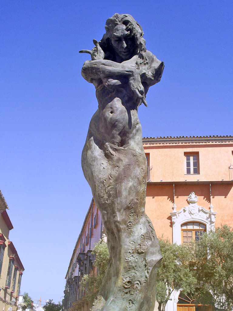 Lola Flores statue, located art her quarter (San Miguel) in Jerez de la Frontera.